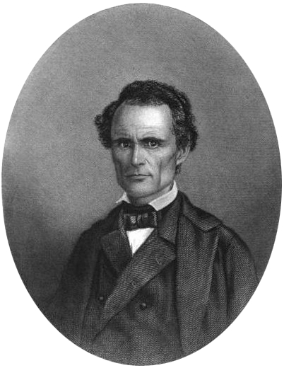 West Hughes Humphreys, a United States District Court judge, and a judge of the Confederate States of America. Published in Livingston, John. Portraits of Eminent Americans Now Living: With Biographical And Historical Memoirs of Their Lives And Actions. New York: Cornish, Lamport & Co., 1853-54.